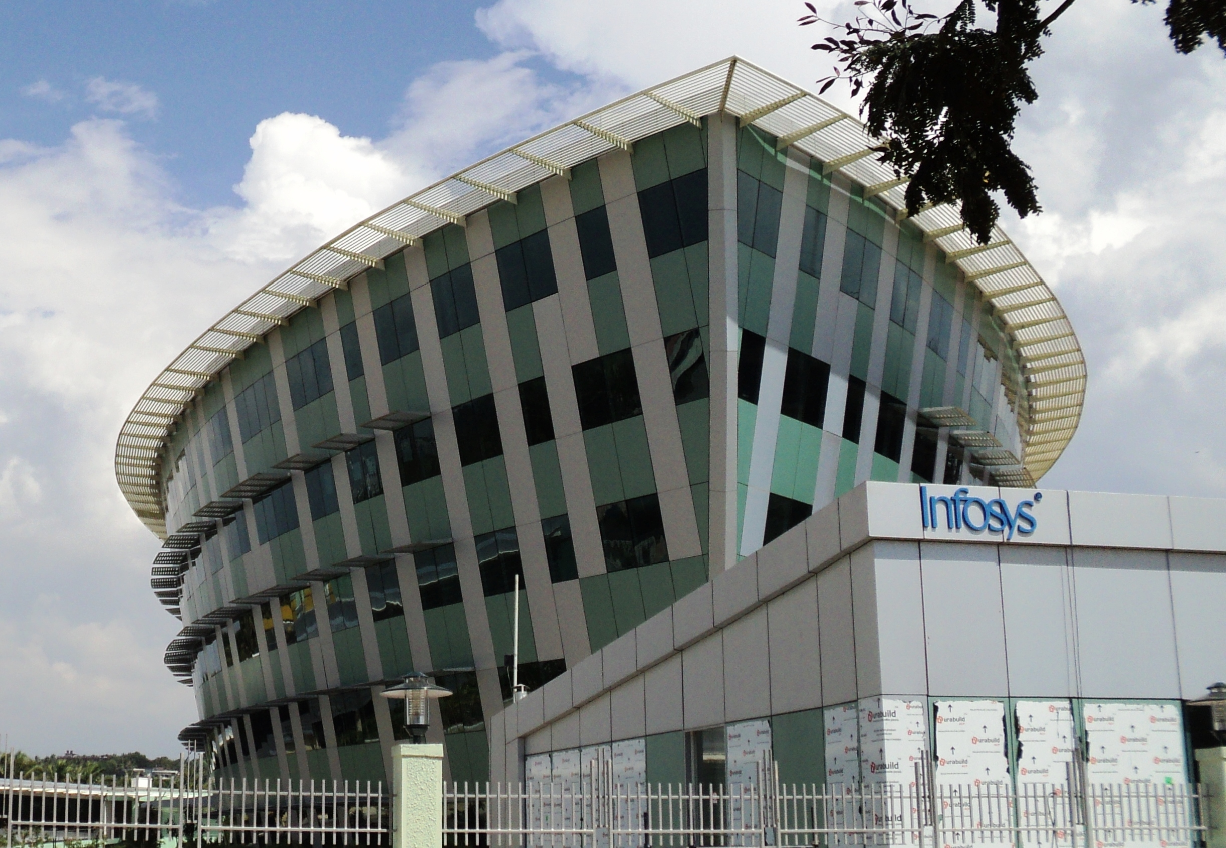 A building in the Infosys Thiruvananthapuram in Technopark Phase 3.